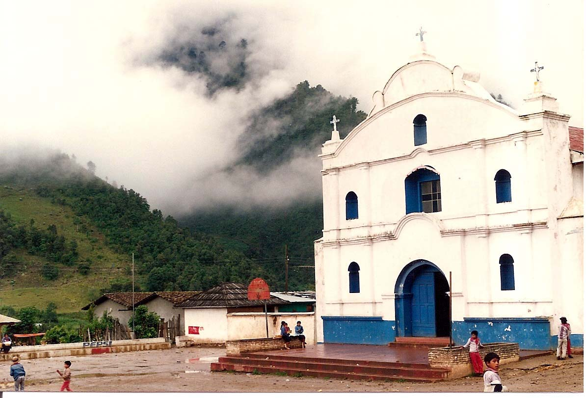 Church in Todos Santos Cuchumatán